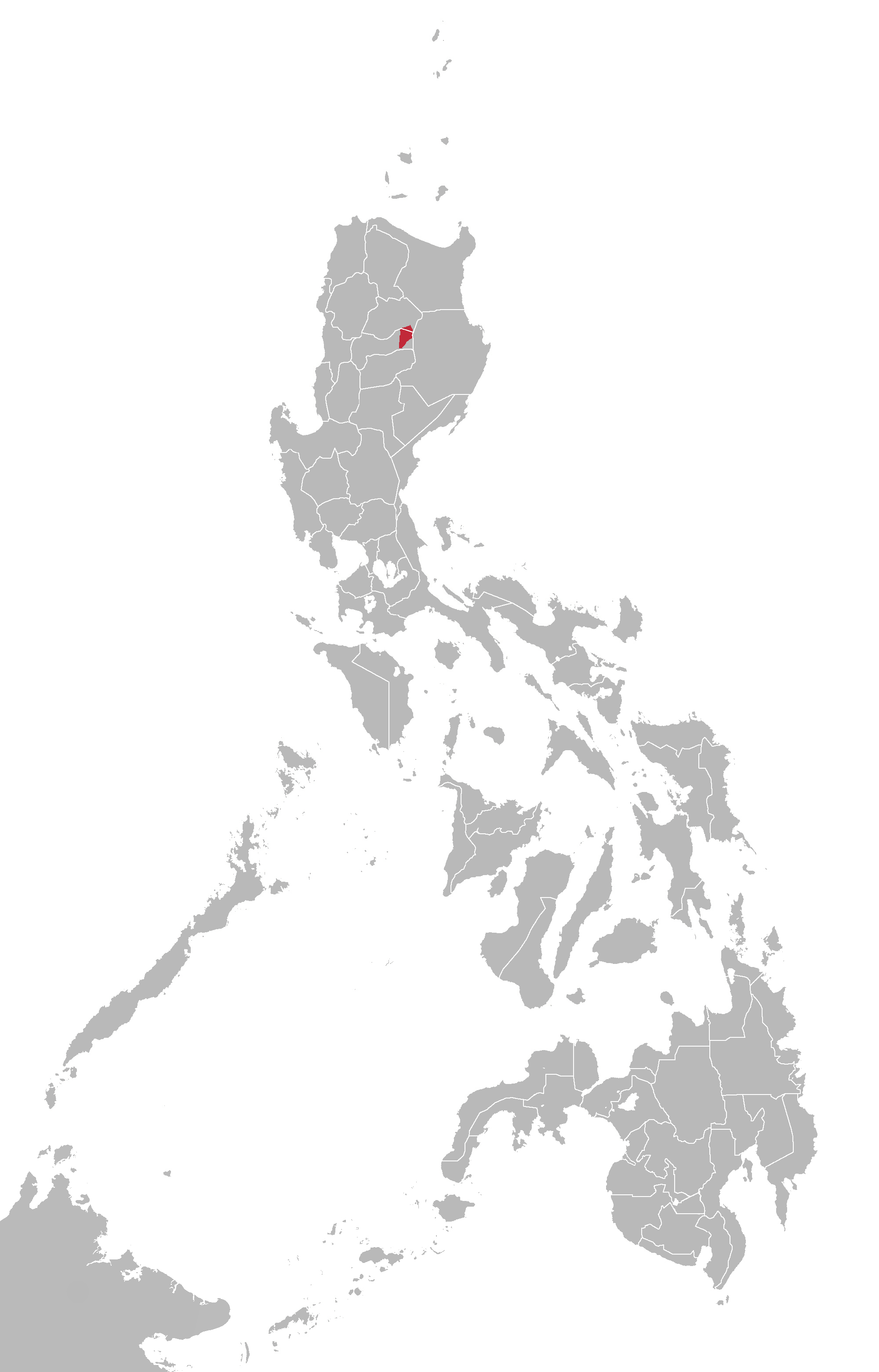 Ga'dang language map based on Ethnologue maps